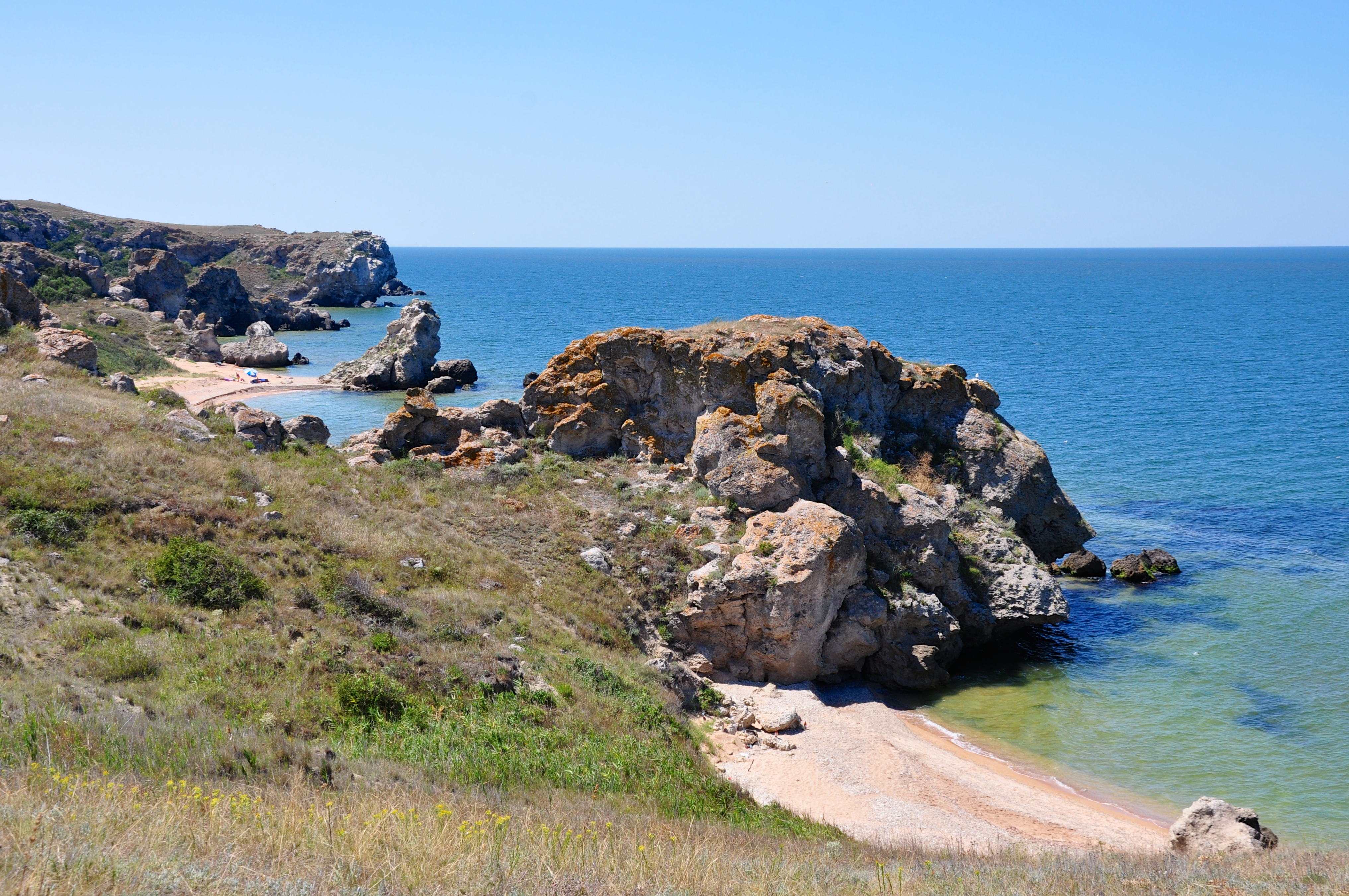 Landscape park of Karalar, Crimea, Ukraine